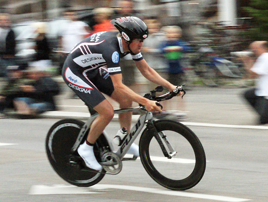 Allan Johansen (DEN) during Tour of Denmark/Post Danmark Rundt 2009, stage 5 (timetrial 15,5 km)